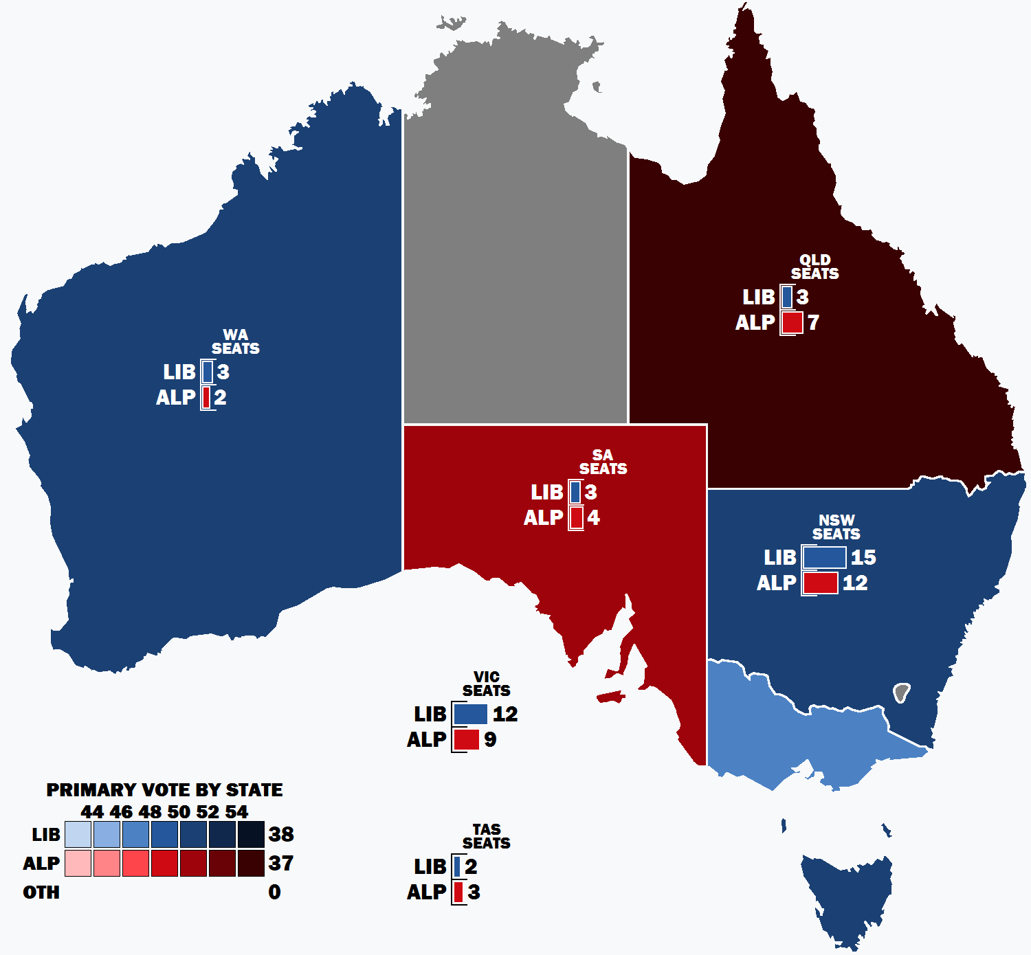 Result of the primary vote by state in the 1913 Australian federal election.